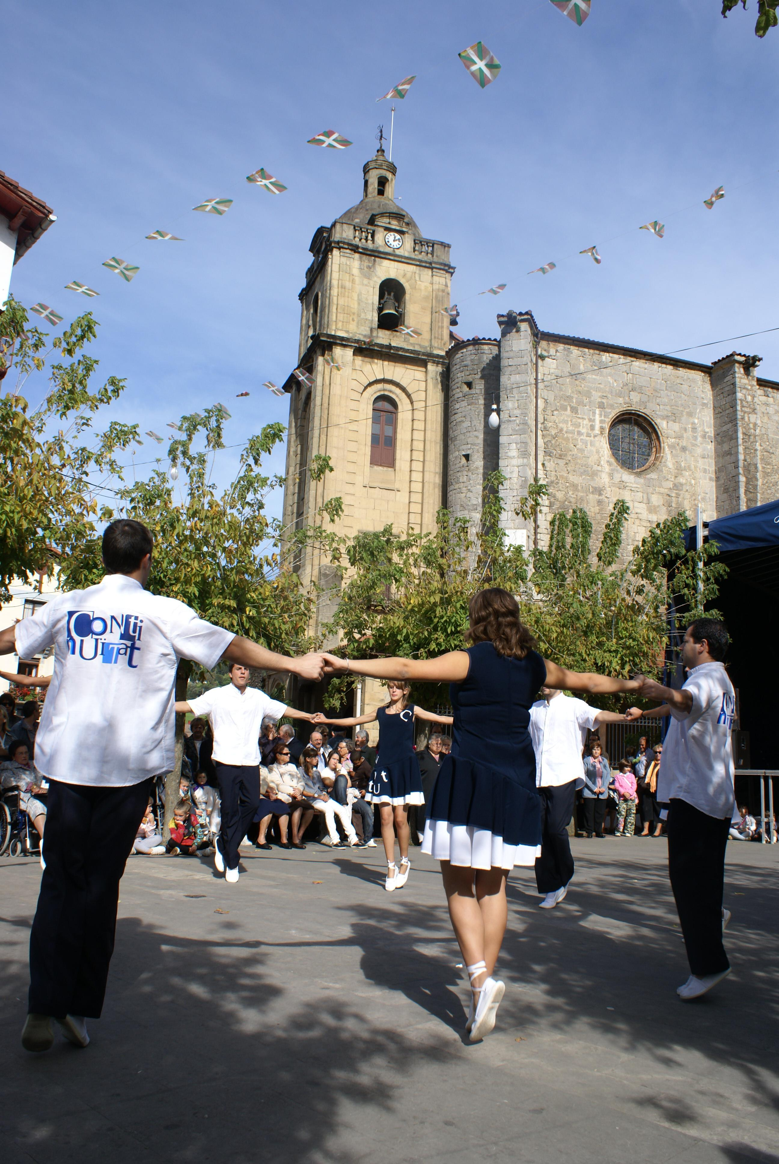 Urnietas feasts